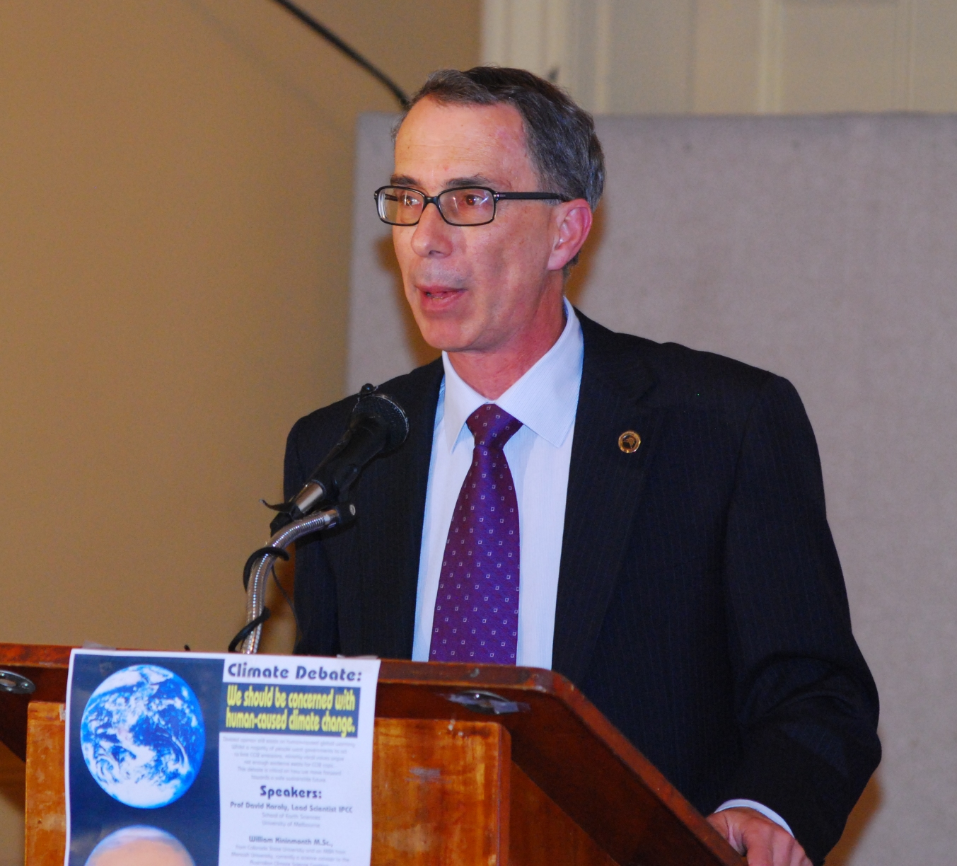 Dr David Karoly, participating in a debate on climate change at Hawthorn, Melbourne, Australia.